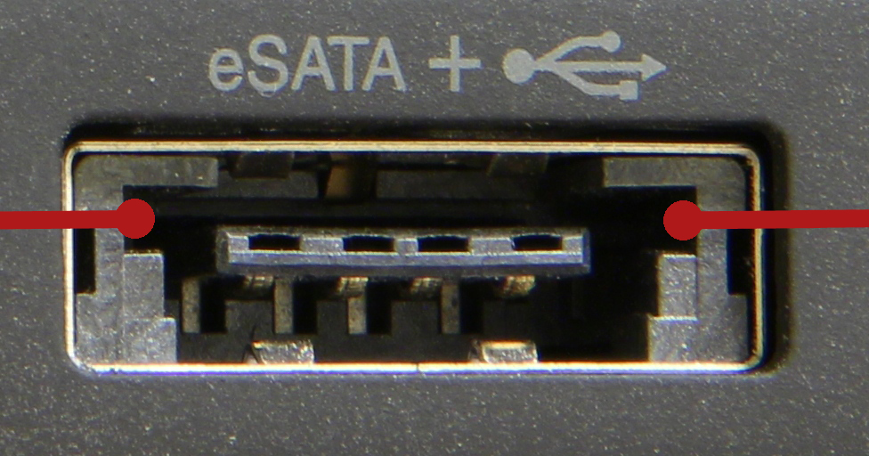 eSATApd socket. Red points denote place of additional 12V contacts.